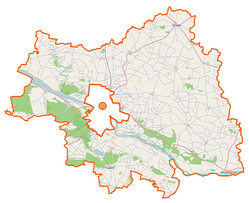 Map of Powiat płocki, Poland This map of Powiat płocki was created from OpenStreetMap project data, collected by the community. This map may be incomplete, and may contain errors. Don't rely solely on it for navigation. Border coordinates52.796919.3002←↕→20.273952.3152